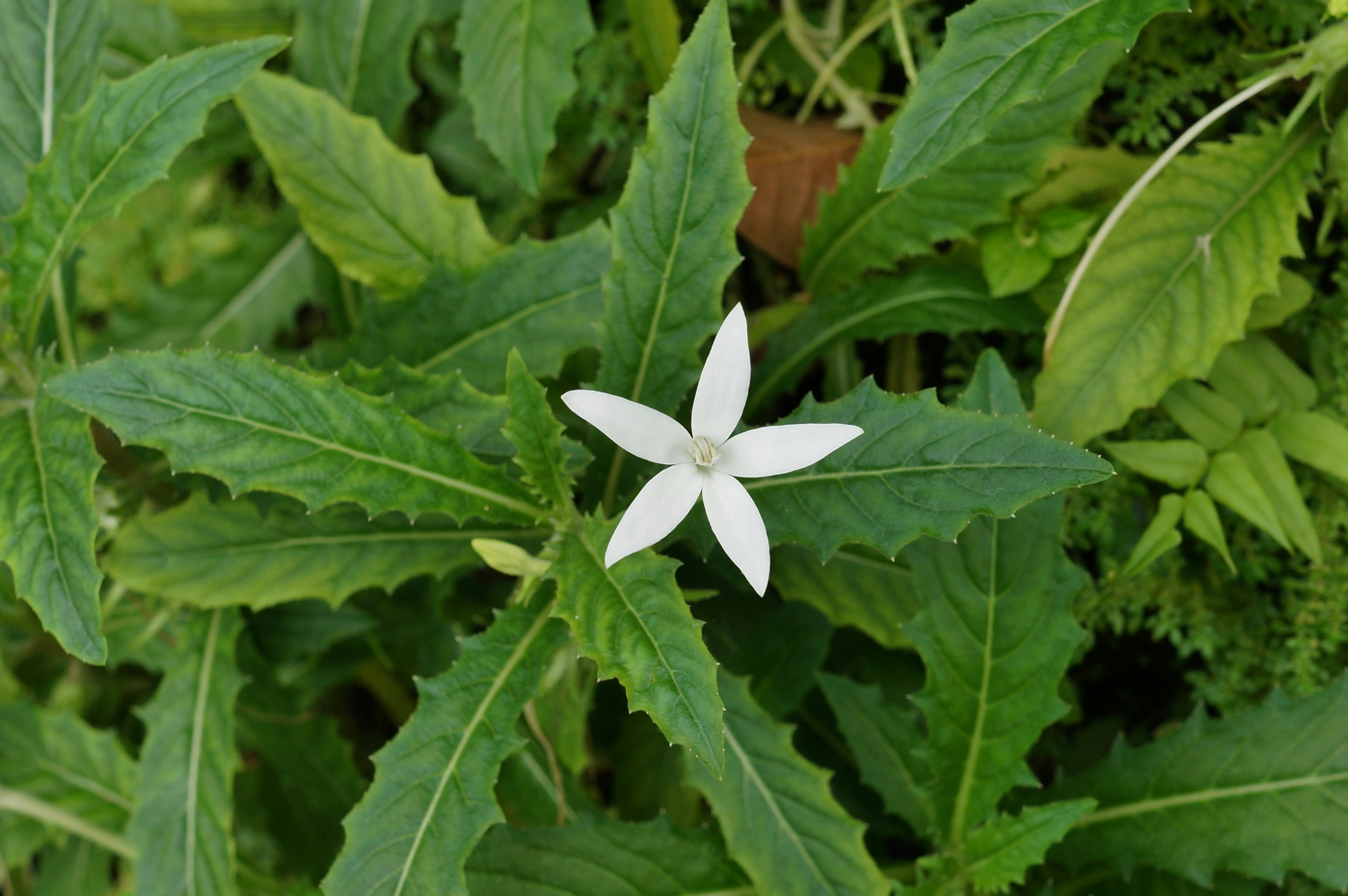 Star of Bethlehem